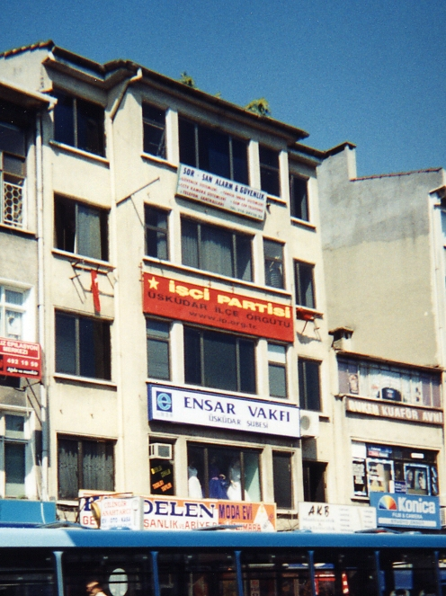 Üsküdar District Organization (Üsküdar Ilce Örgütü) office of the İşçi Partisi (Workers Party), Turkey.